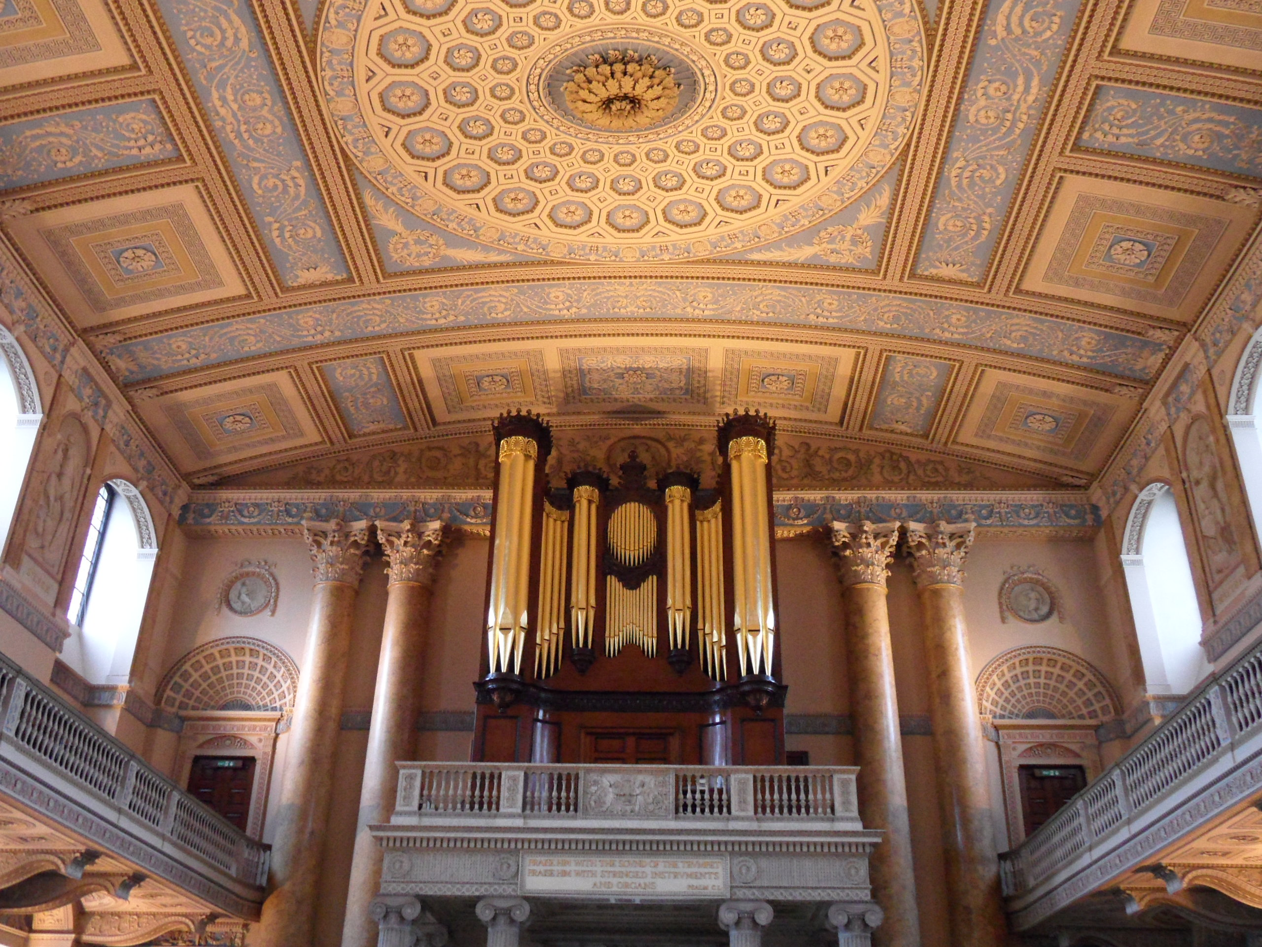 Organ by Samuel Green (1789), Old Royal Naval College Chapel of Saint Peter and Saint Paul in Greenwich, London